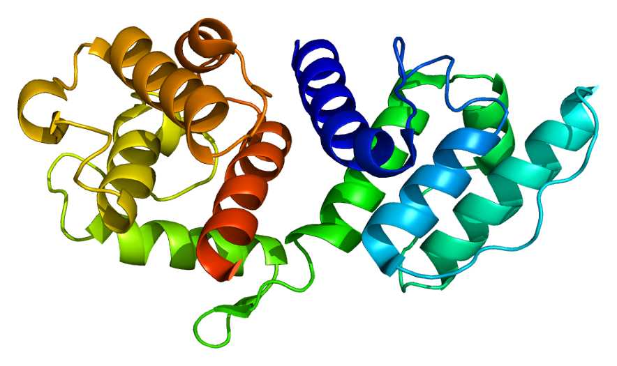 Structure of the ACTN3 protein. Based on PyMOL rendering of PDB 1tjt.